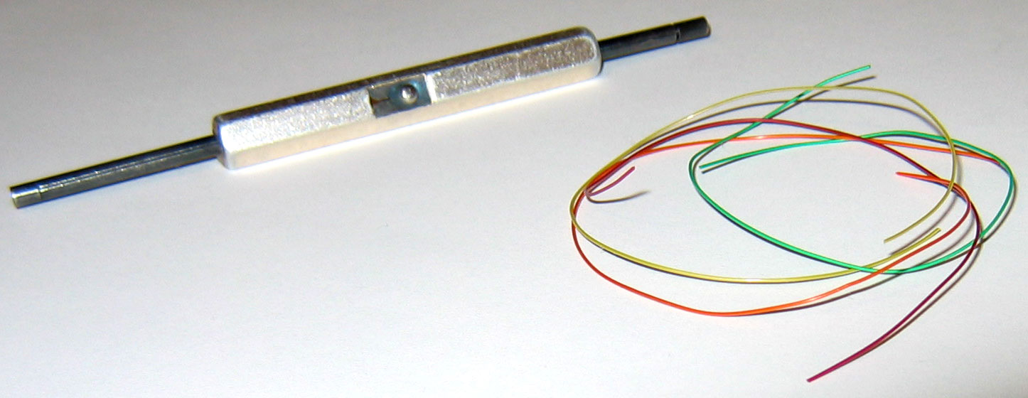 This photo shows a manual wire wrap tool and wire wrap wire in various colours. The black part in the centre of the tool is a wire stripper; the end of the tool is placed over the post receiving the tool and rotated, wrapping the wire on. The tool is held by the hexagonal part.